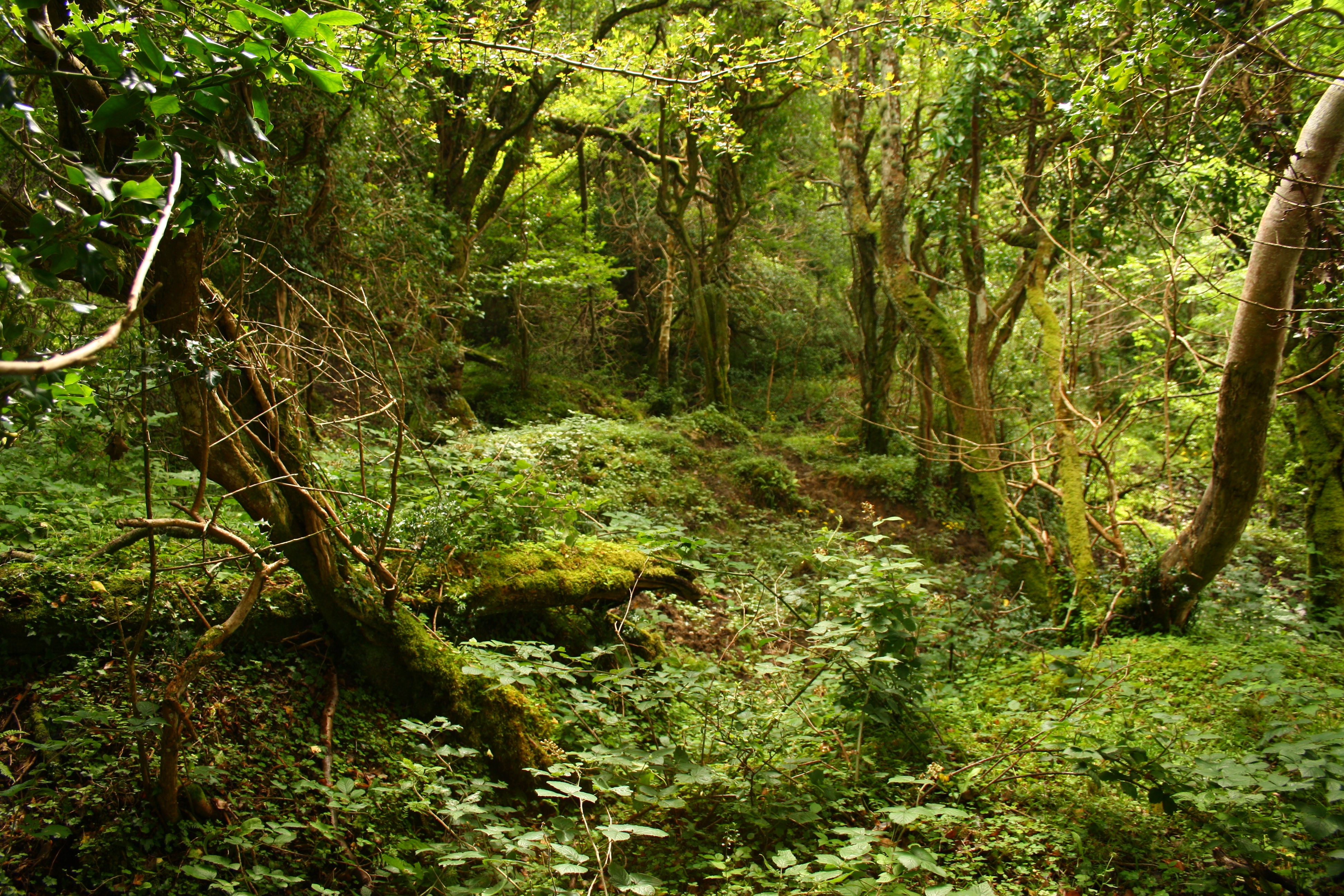 Area surrounding Church